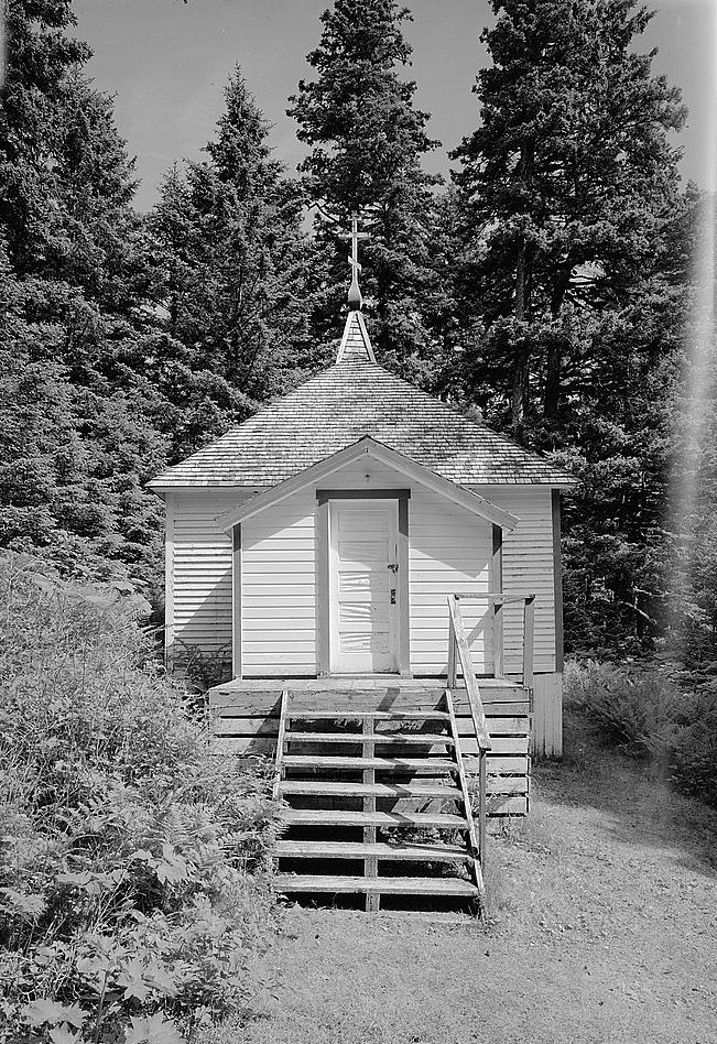 Entrance to the Sts. Sergius and Herman of Valaam Chapel, a Russian Orthodox chapel on Spruce Island in the Kodiak Island Borough of the U.S. state of Alaska, near the city of Ouzinkie. It is a site of pilgrimage due to its connection with St. Herman, the patron saint of the Orthodox Church in America: dedicated to him, it is the location of his grave. Built in 1930, the chapel was added to the National Register of Historic Places on 6 June 1980.